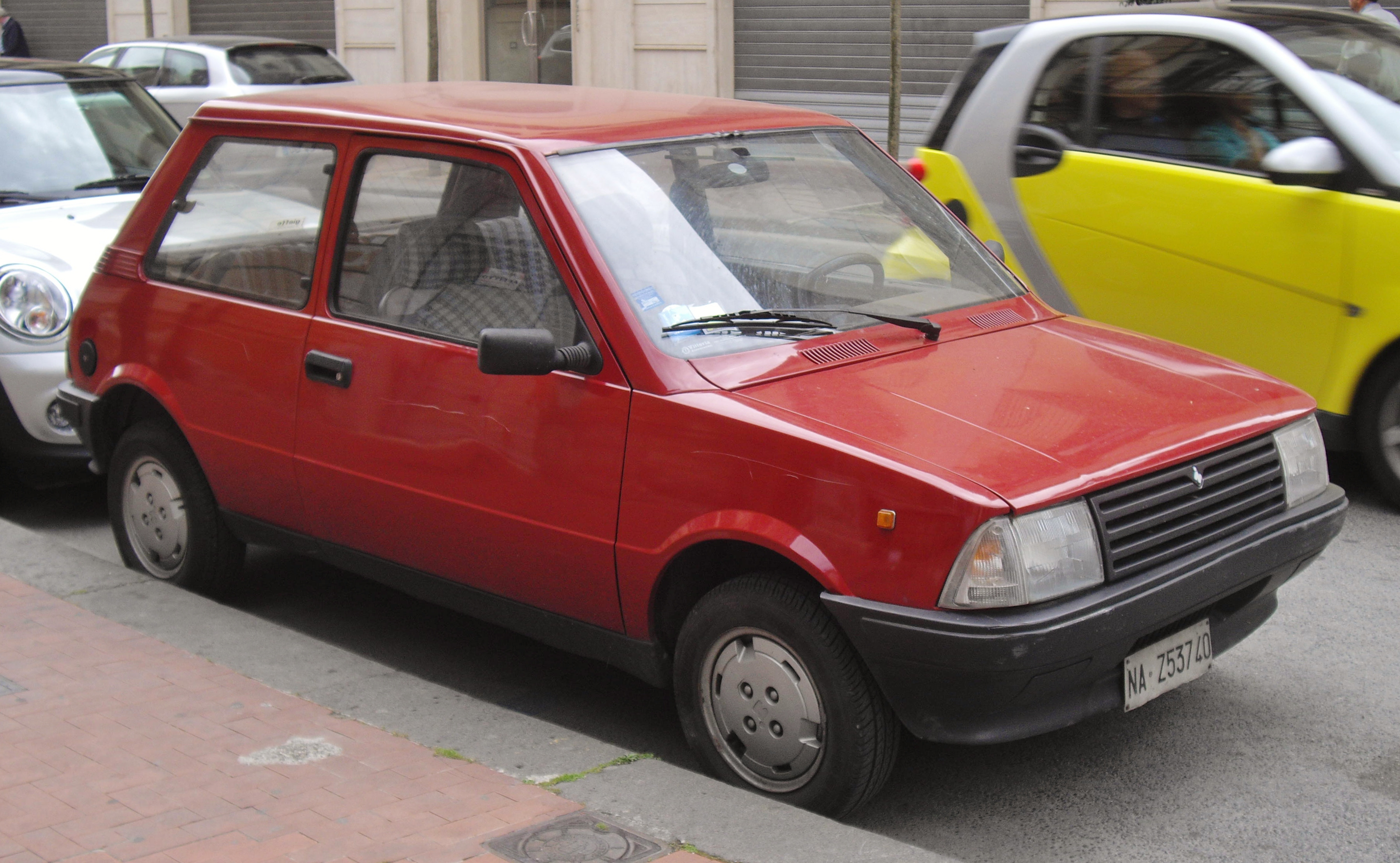 Innocenti 990 diesel SL front